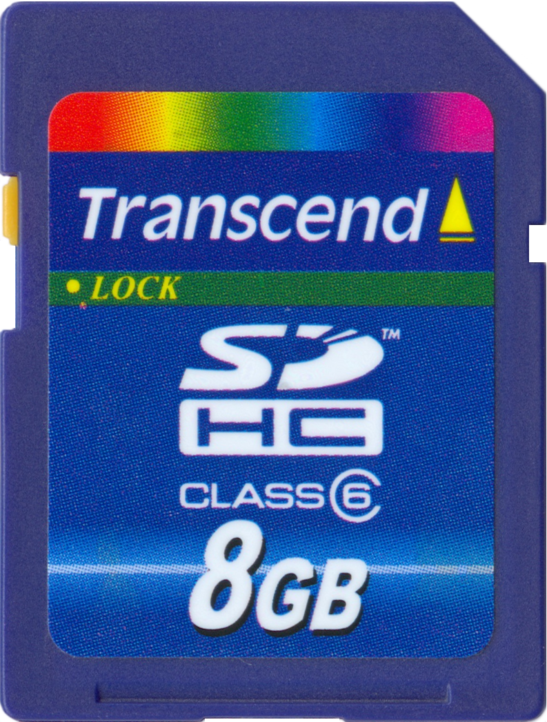 Transcend SDHC memory card, 8GB, front planar view